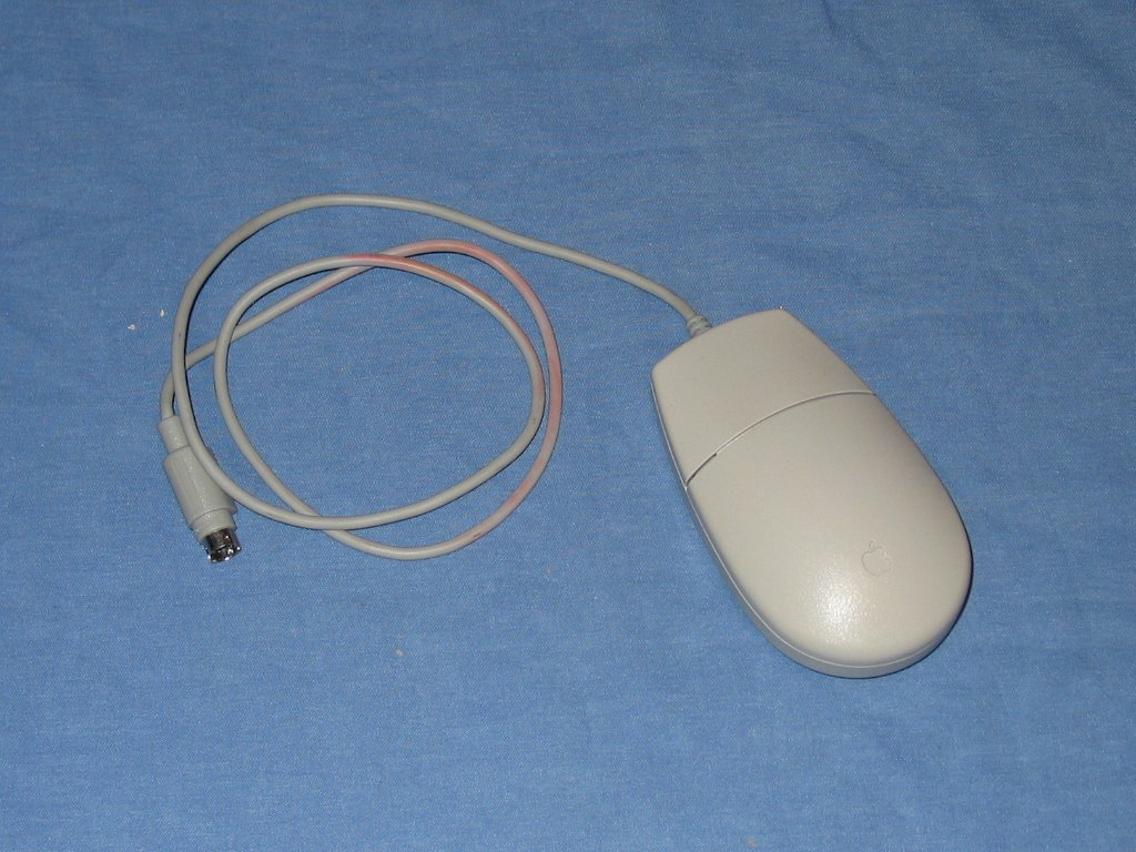 Photo of an Apple Desktop Bus Mouse II